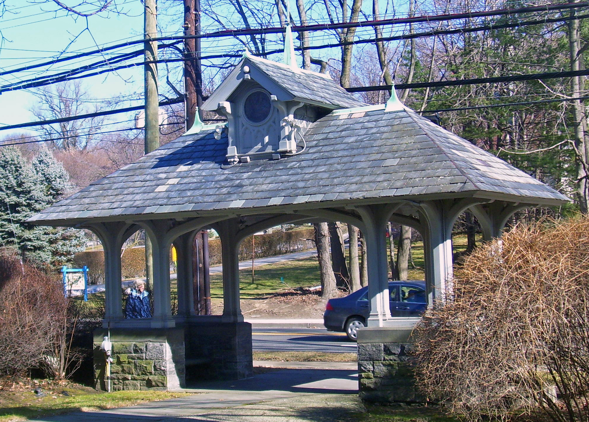 Lych gate at Church of St. Barnabas, Irvington, NY, USA